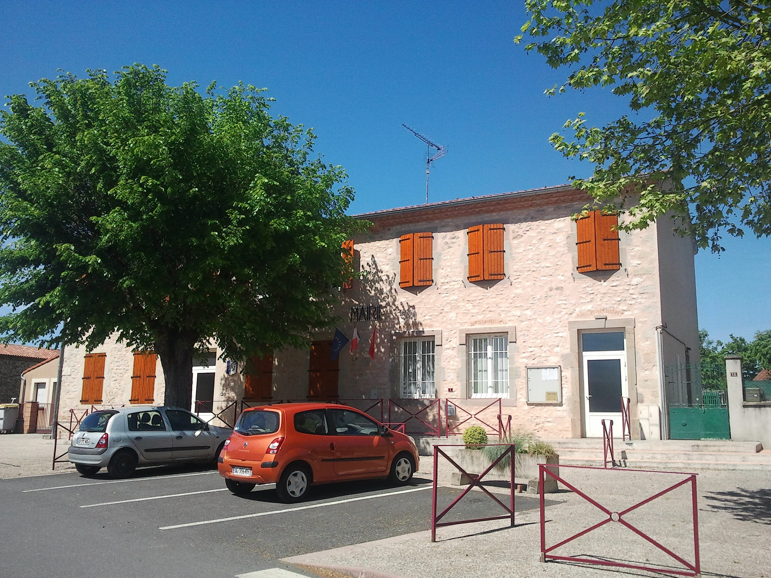 The town hall in Montdragon